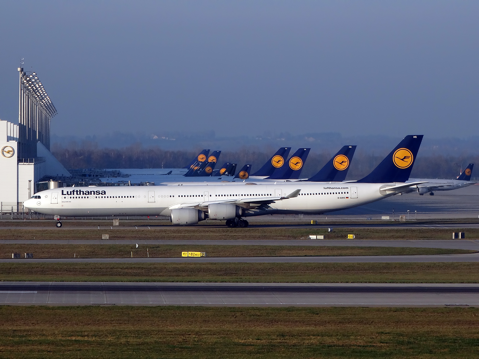 Munich (EDDM/MUC) Airport